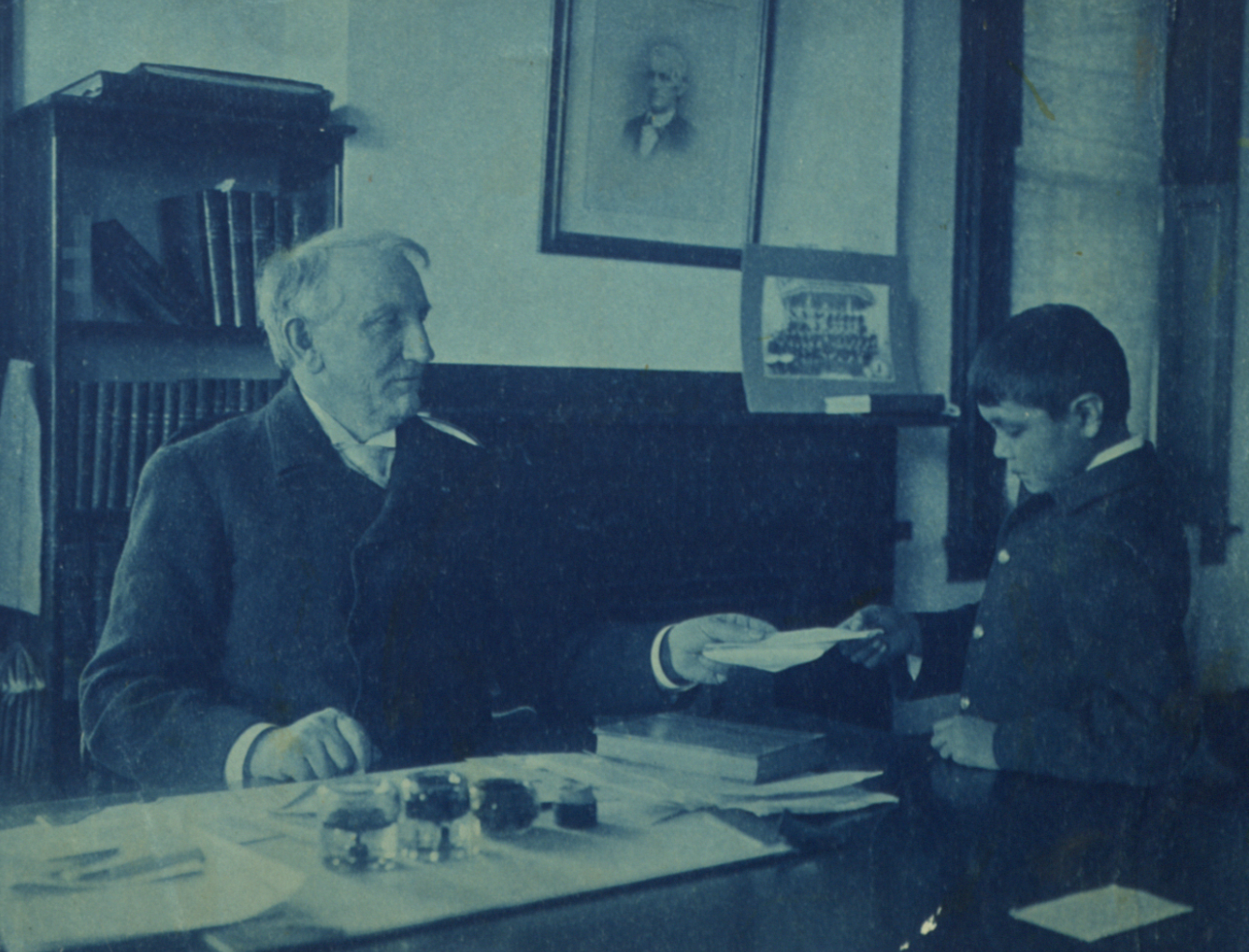 General Richard Henry Pratt and student Other information No.